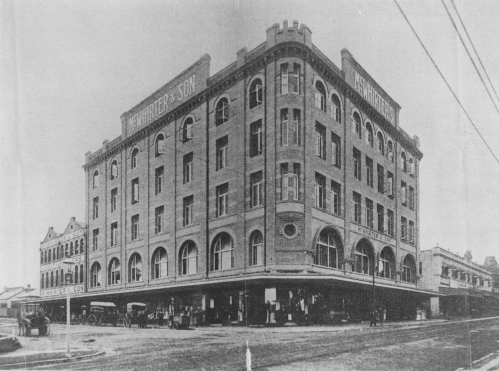 McWhirters department store in Fortitude Valley, 1913